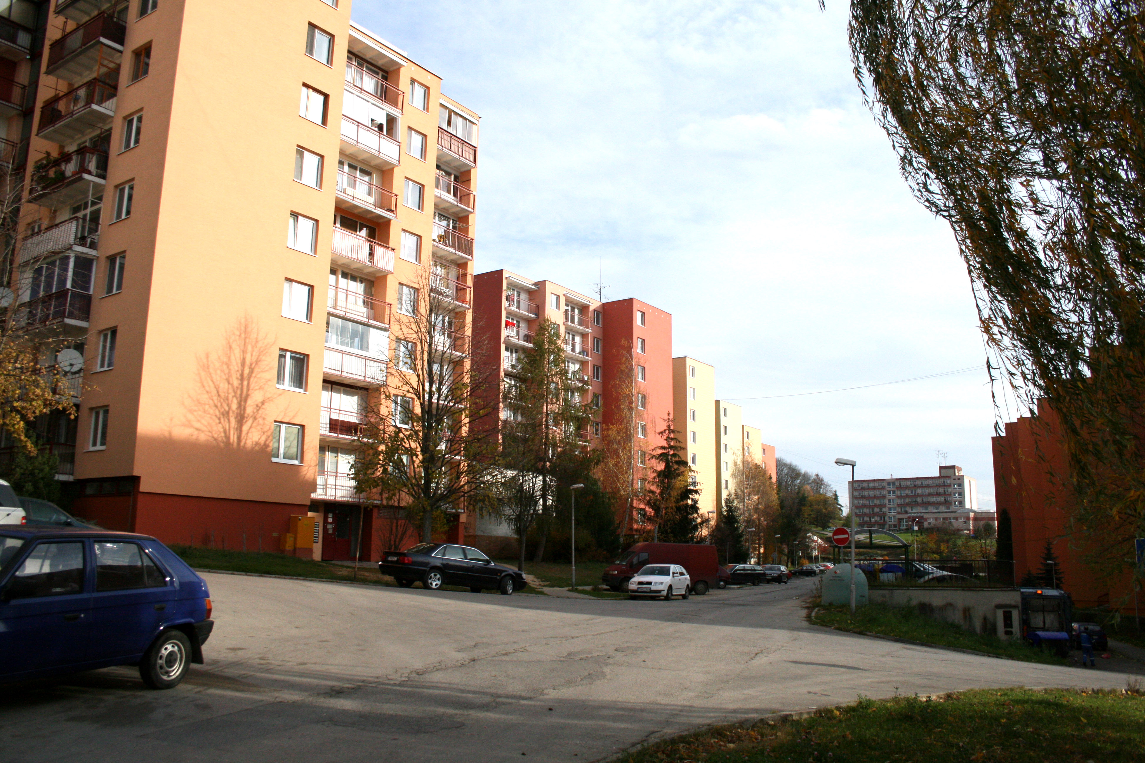 Trencin, Safarikova, Juh estate